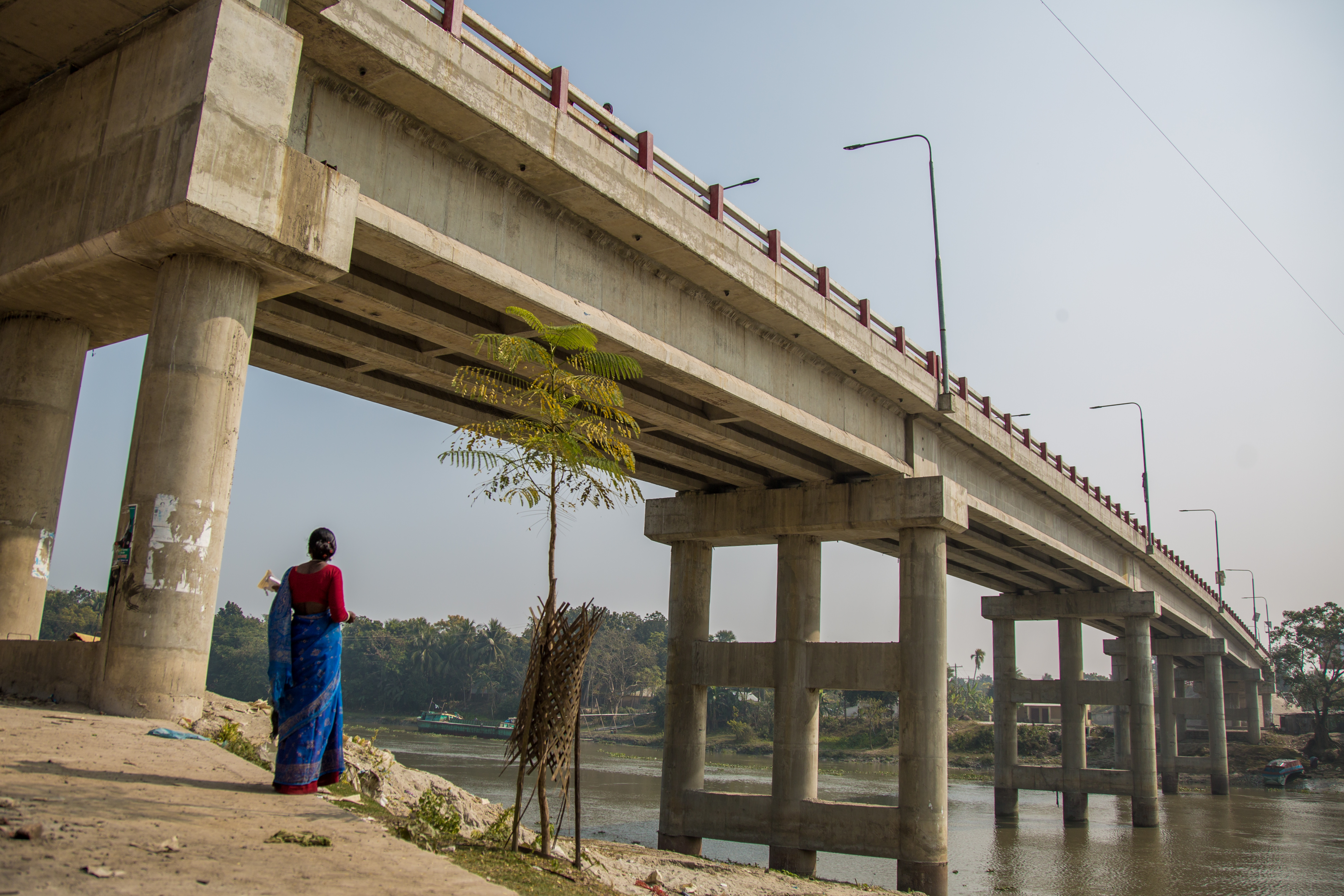 Sheikh Rasel Bridge, Narail